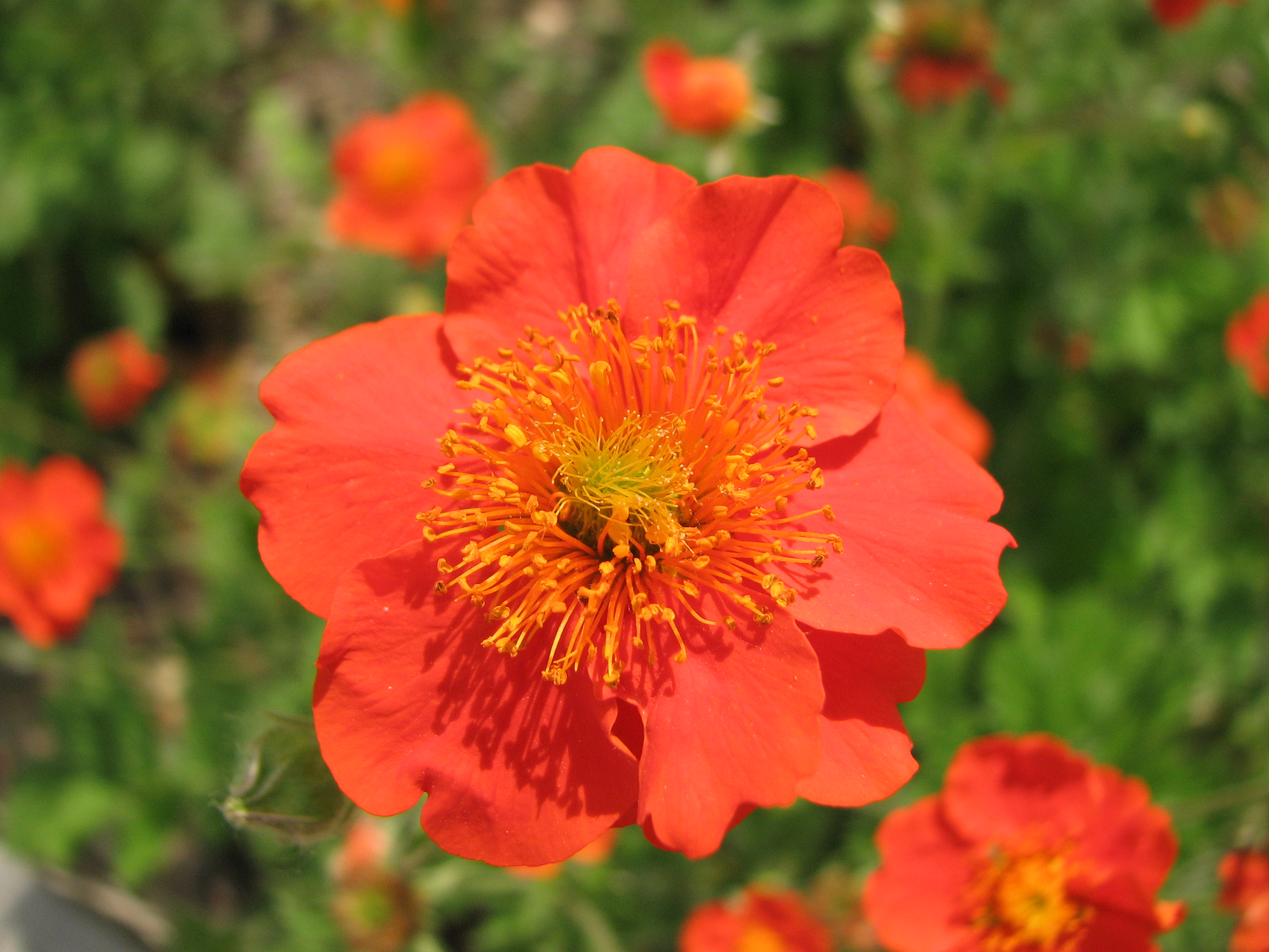 Geum coccineum. From the collection of the Main Botanical Garden of Academy of Sciences in Moscow (perennials plot).